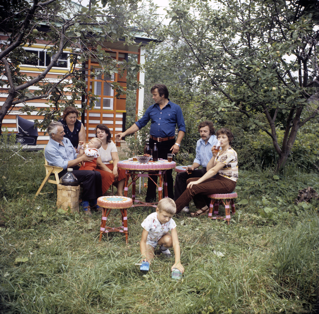 “Boleslav Telichan's family at summer house”. The family of Boleslav Telichan, worker of the Krasny Khimik plant in Leningrad (now St Petersburg) at their summer house.